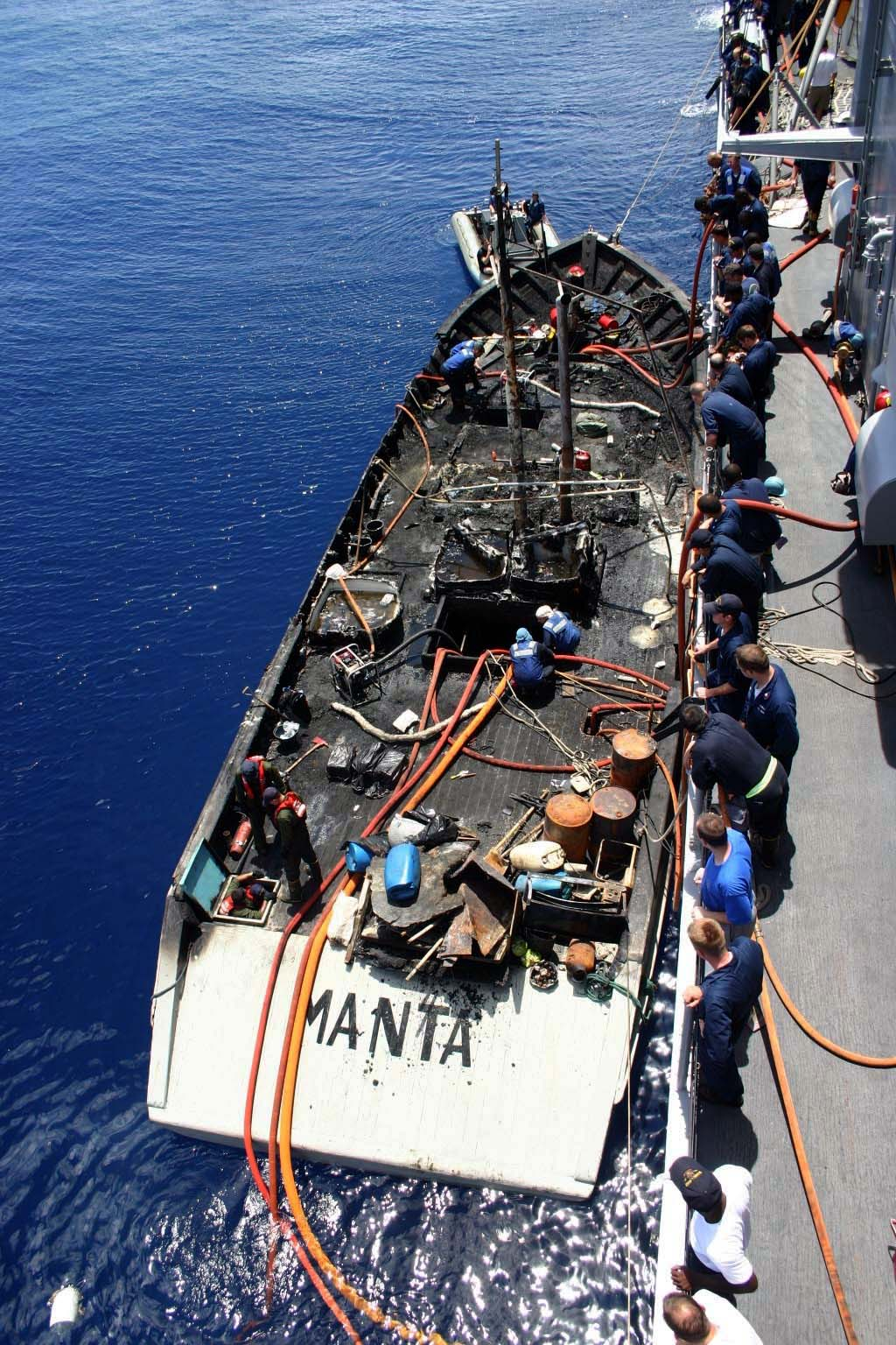 At Sea (April 30, 2005) - USS Robert G. Bradley (FFG 49) conducted its second significant drug interdiction operation in the first month of its deployment to the U.S. Naval Forces Southern Command area of responsibility, disrupting the smuggling of 4.6 metric tons of narcotics from the fishing vessel Salomon. U.S. Navy photo by Electronics Technician 1st Class Jason Lagham (RELEASED)